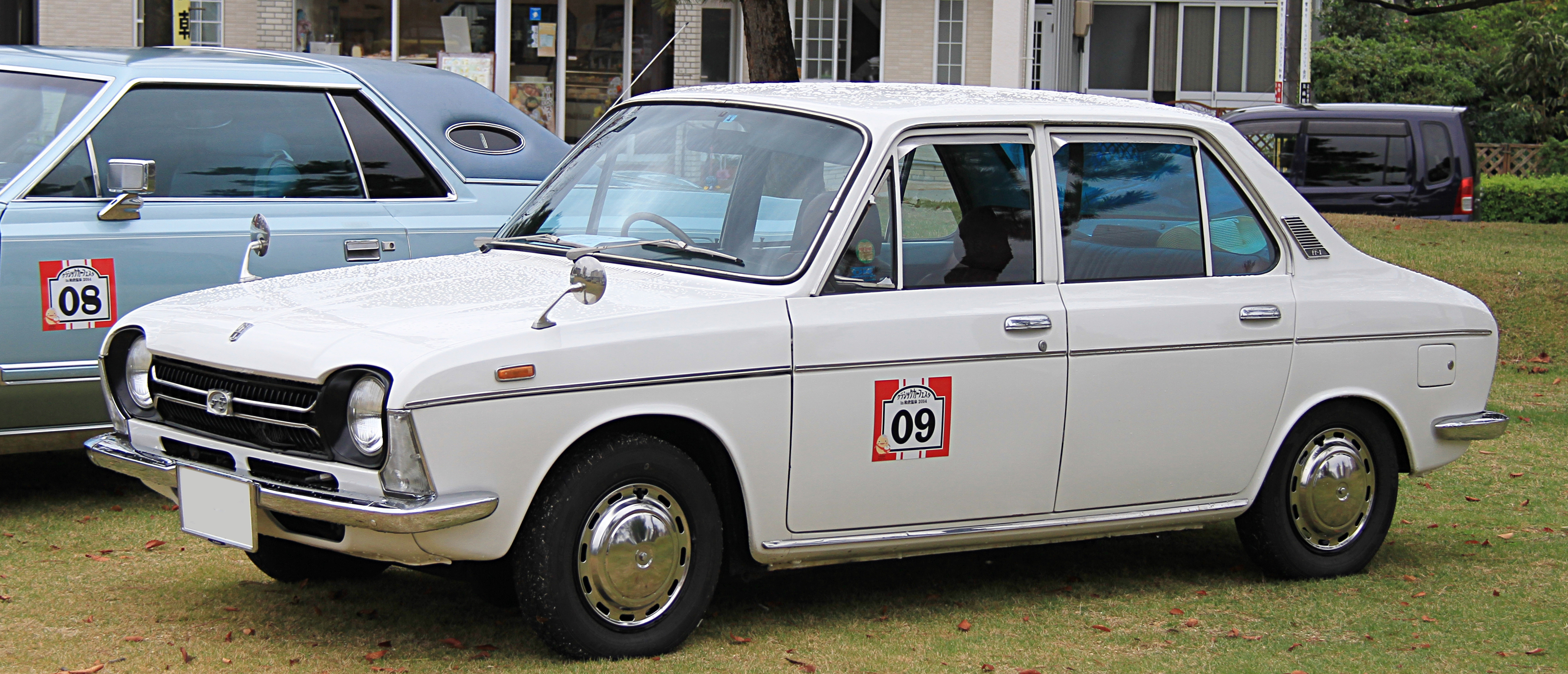 Subaru ff-1